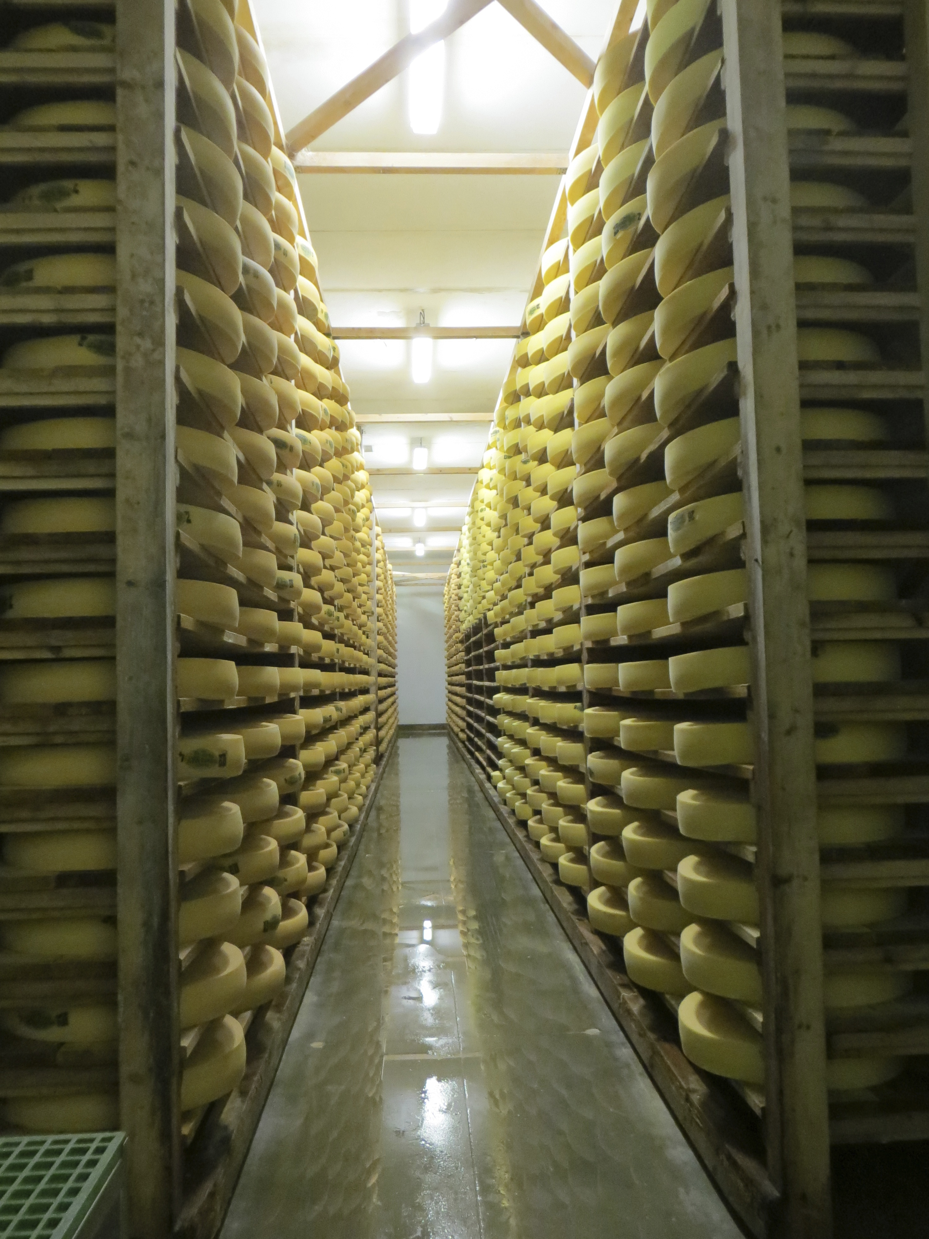 Wheels of comté cheese. Picture taken in Burgundy district of France.